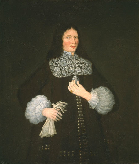 Portrait of Mr. John Freake, Merchant and Attorney of Boston